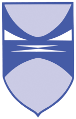 COA of Blönduósbær